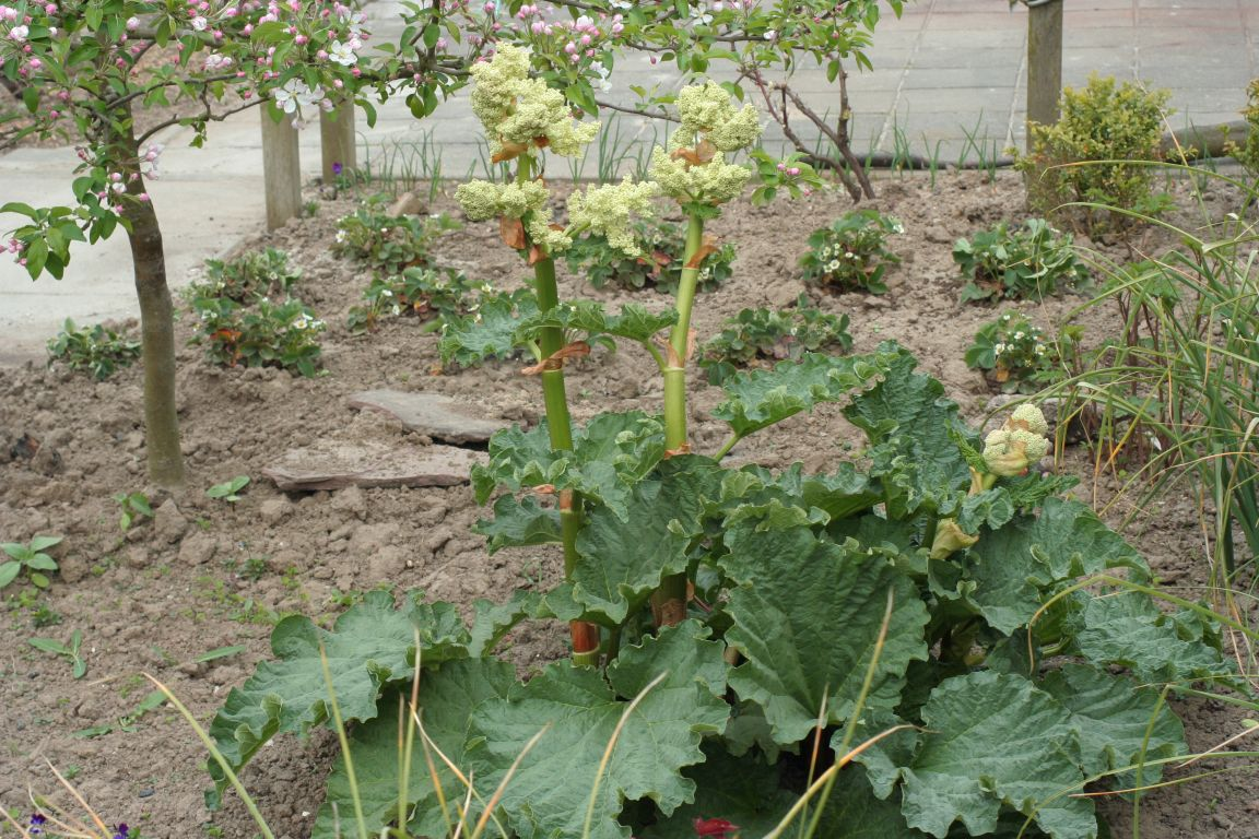 The flower of a Rhubarb. Four sequential photos: Image:Rhubarb-flower-1.jpg Image:Rhubarb-flower-2.jpg Image:Rhubarb-flower-3.jpg (this one) Image:Rhubarb-flower-4.jpg Photo of may 2006.